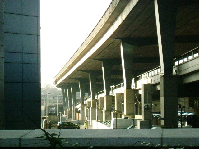 Westway & Harrow Road, W2 One of the few places in Britain where you get double tier roads, above is Westway the former A40(M), below Harrow Road the A404.